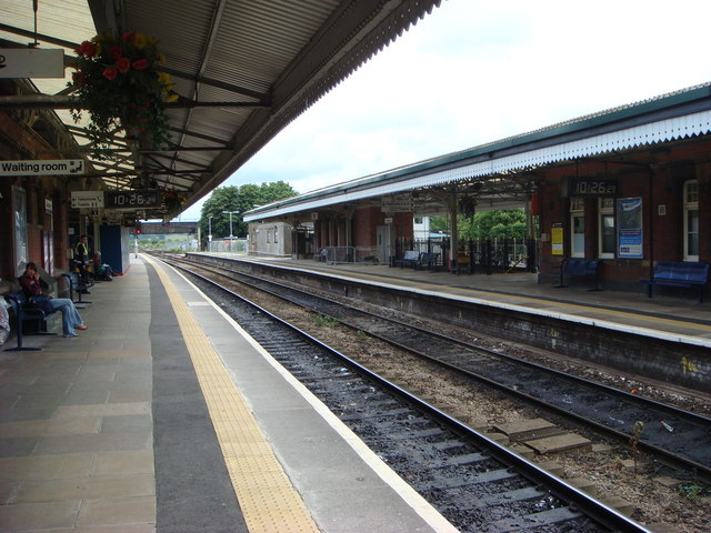 Westbury Station Line to London